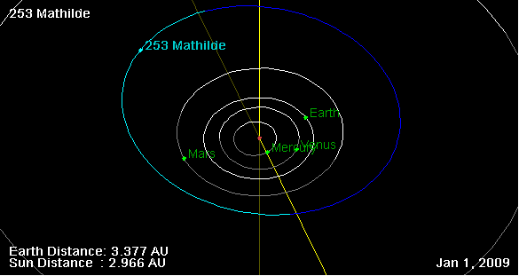 253 Mathilde orbit, and his position on 01 Jan 2009 (NASA Orbit Viewer applet)